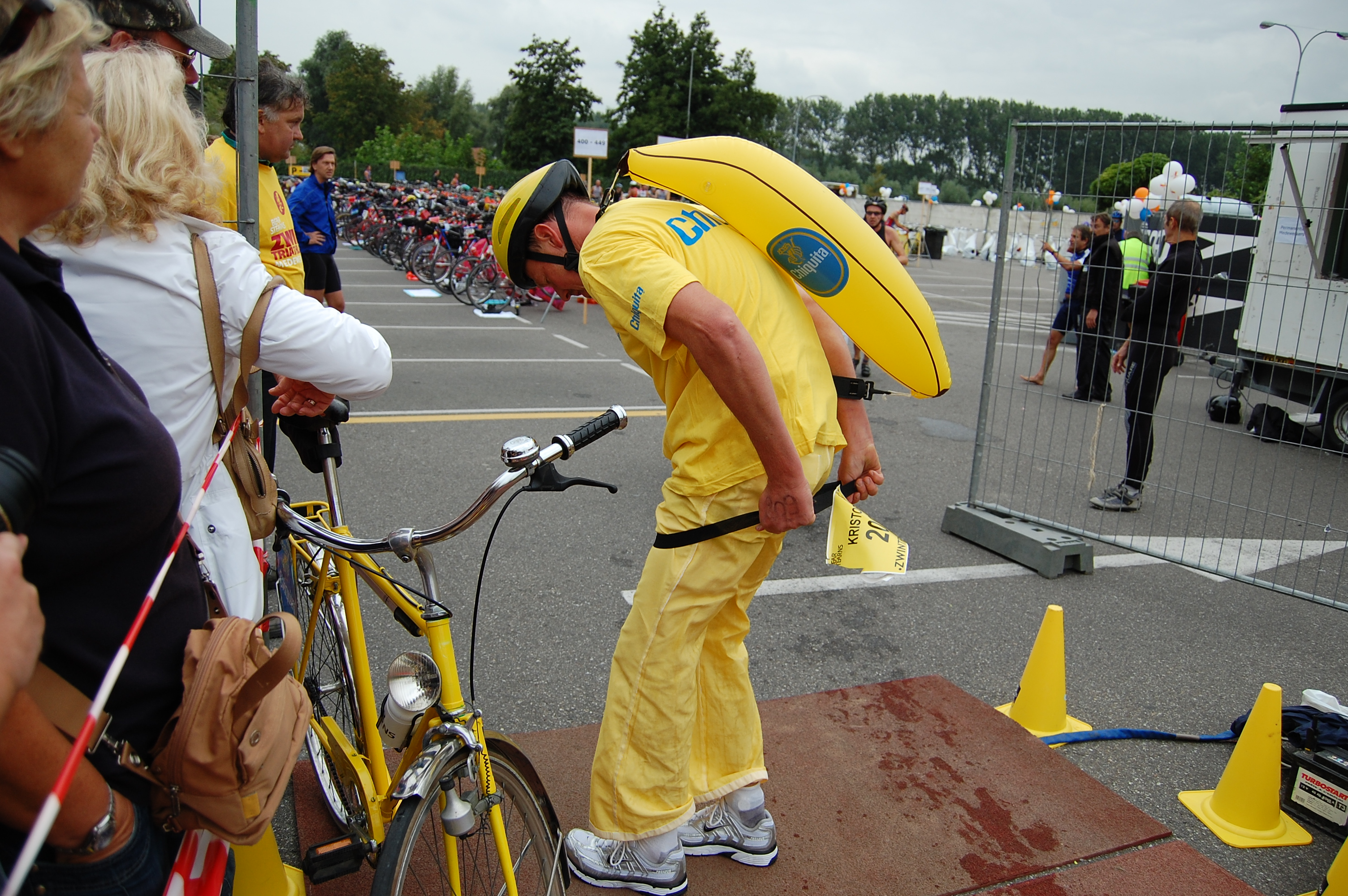 Photo from the Zwintriathlon in Knokke, Belgium.